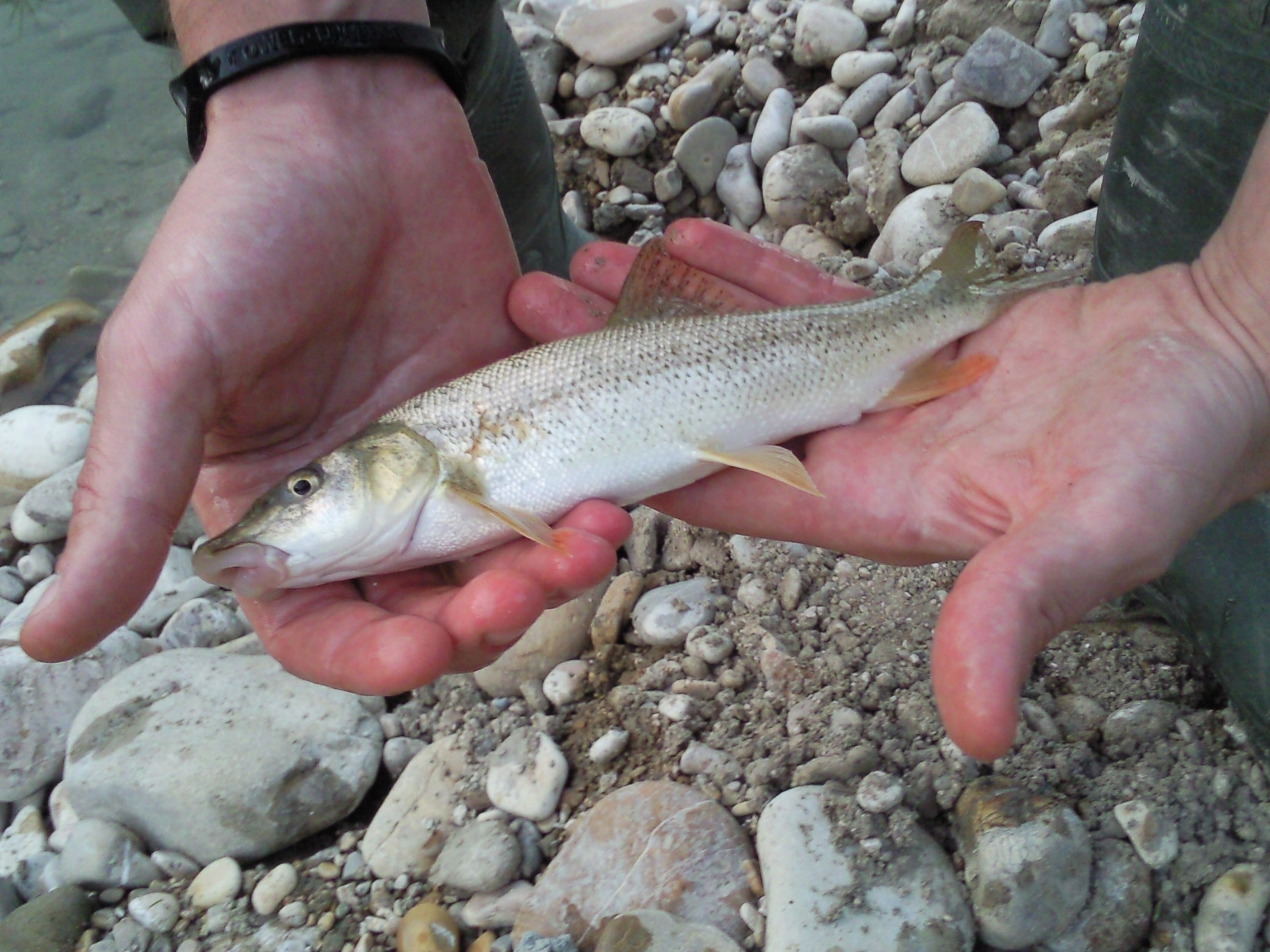 Barbus plebejus catched by a sportfisher in Conca river (Italy).